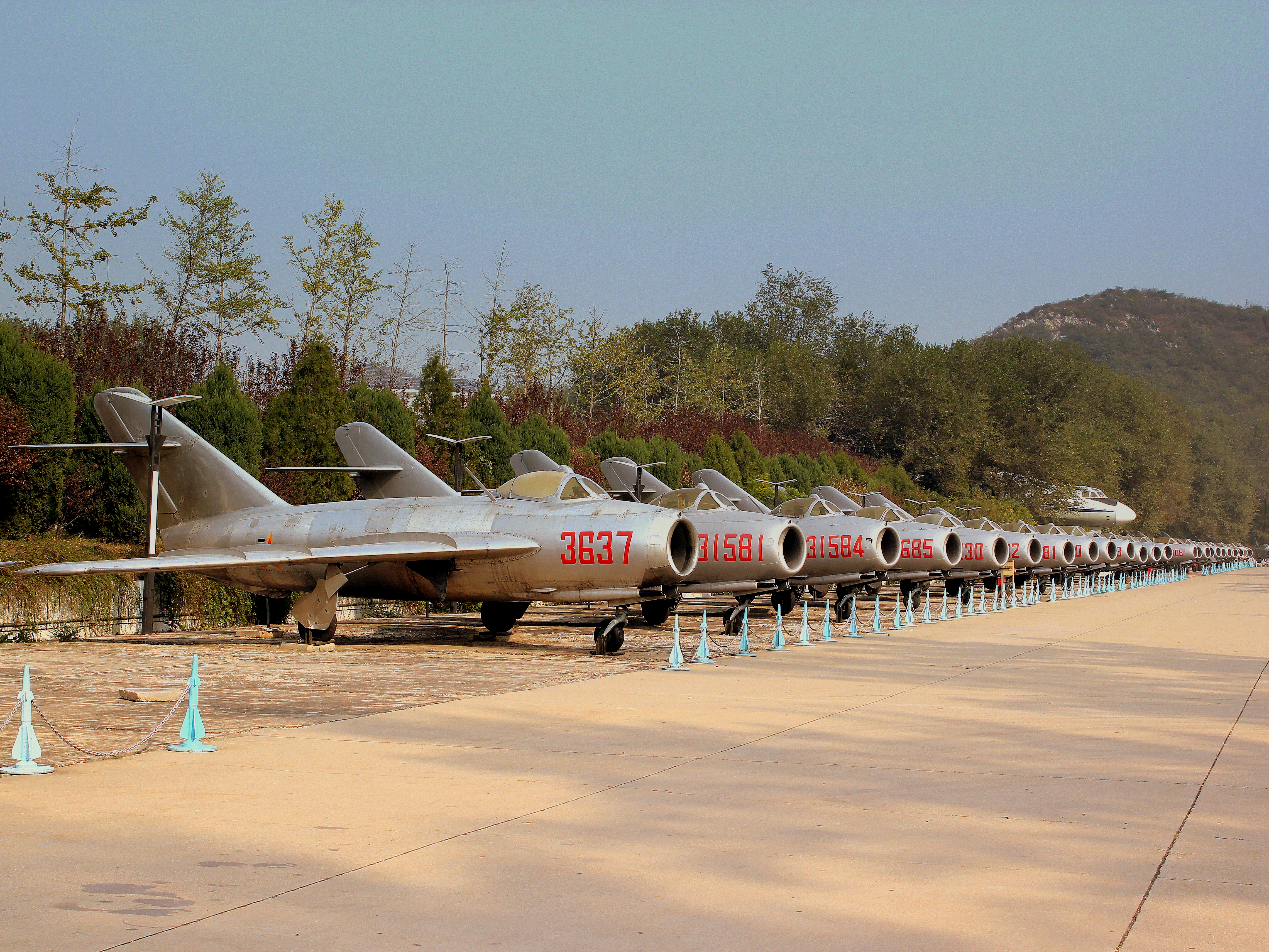 LINE UP OF SHENYANG (CHINESE BUILT MIG17 TYPE) AT THE DATANGSHAN CHINA AVIATION MUSEUM BEIJING CHINA OCT. 2012